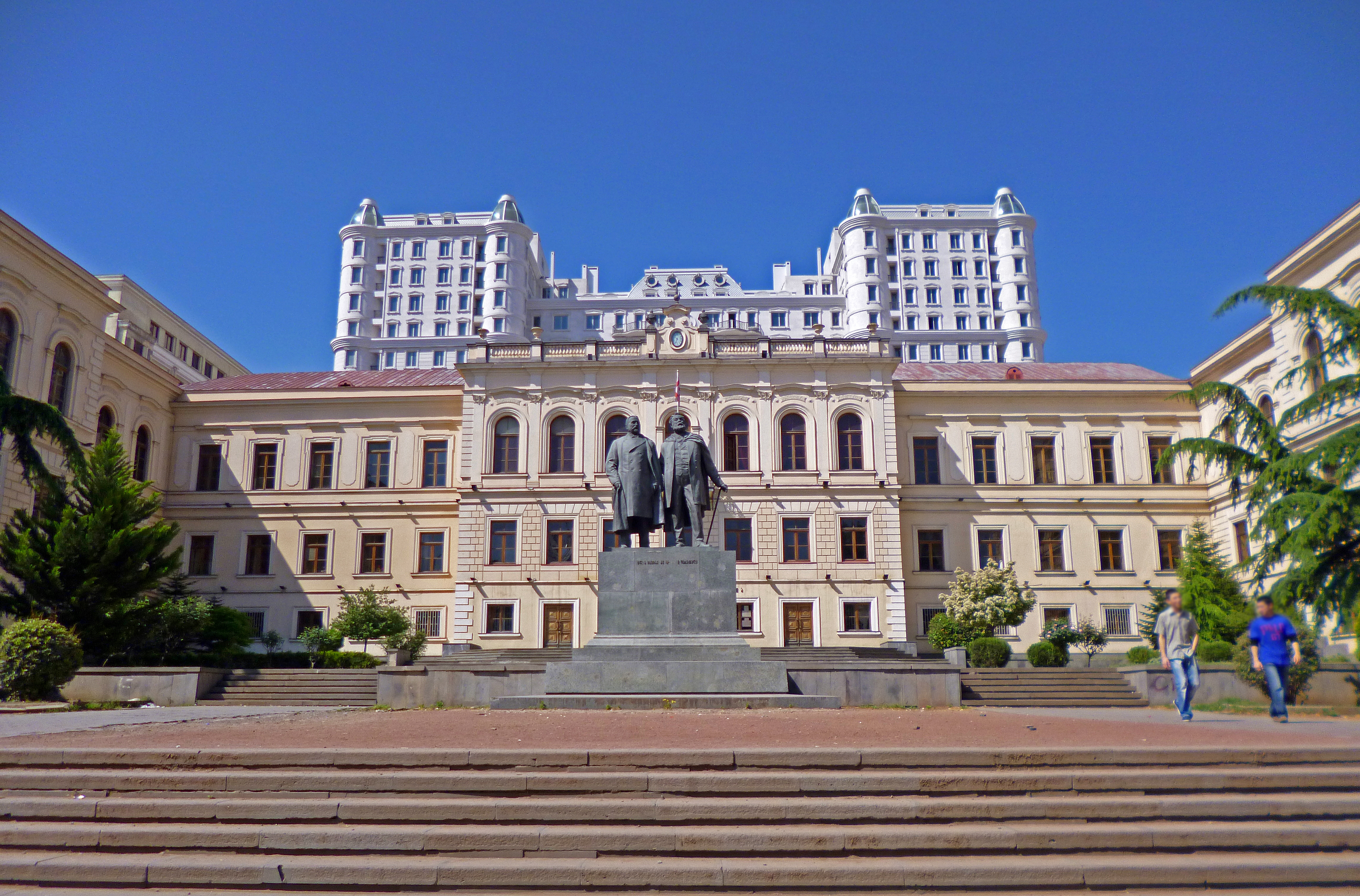 The First Classical School of Tbilisi, also known as the Tbilisi First Classical Gymnasium and Tbilisi First Public School